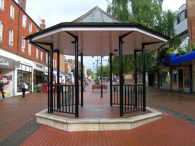 Picture of the Church Walk, taken from the Bandstand, Burgess Hill.